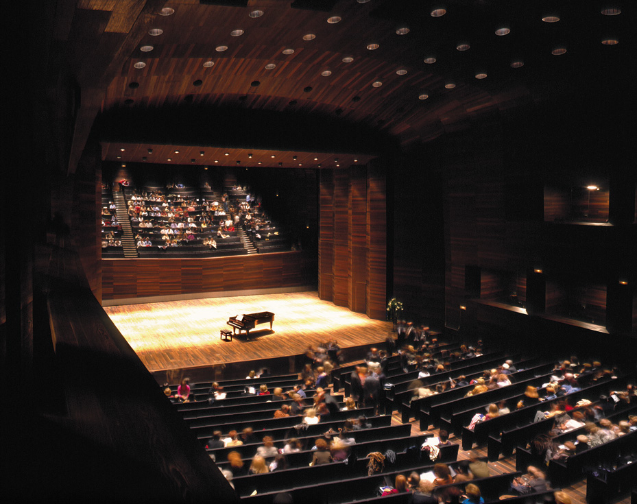 Interior view of the León Auditorium, by Mansilla + Tuñón